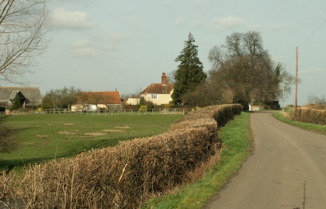 Messing Lodge as viewed from Lodge Road